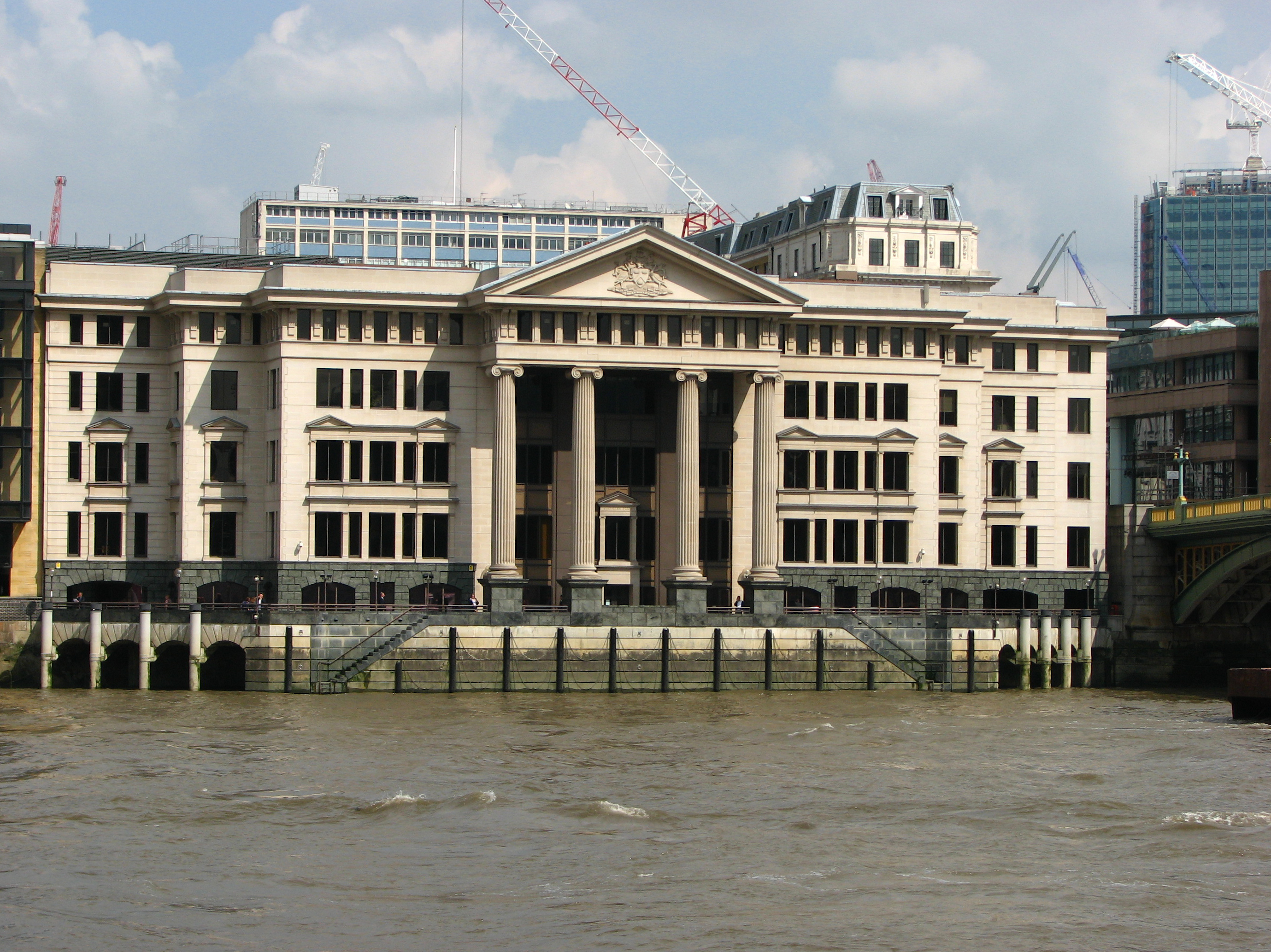 Vintners' Place, an office building in the City of London facing the Thames.